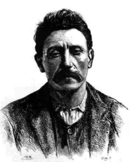 Clément Duval, french anarchist and illegalist.